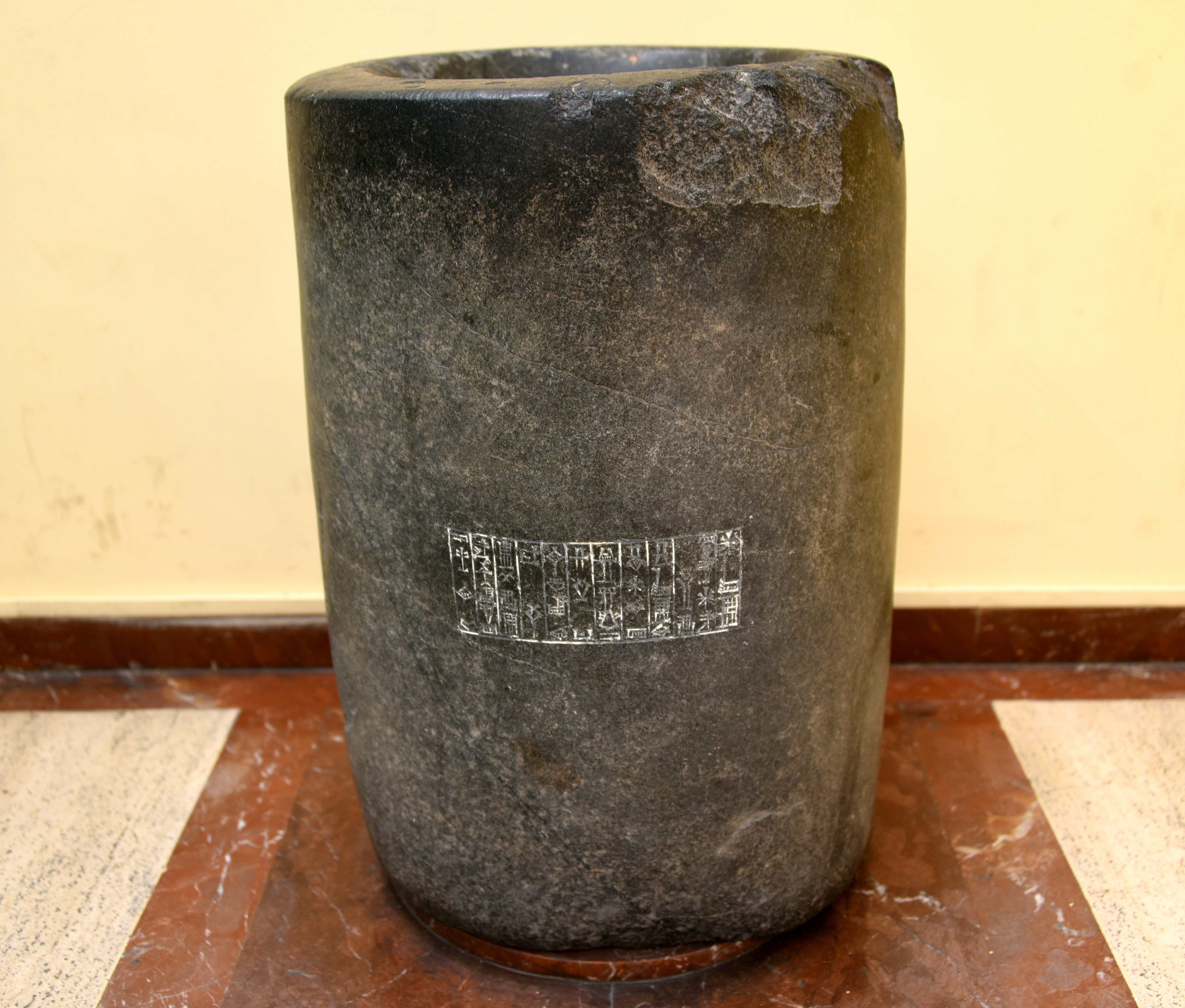 The cuneiform inscription on this diorite mortar state that this mortar was an offering from Gudea, ruler of Lagash. From Nippur, Southern Mesopotamia, Iraq. Reign of Gudea, 2144-2124 BCE. Ancient Orient Museum, Istanbul.